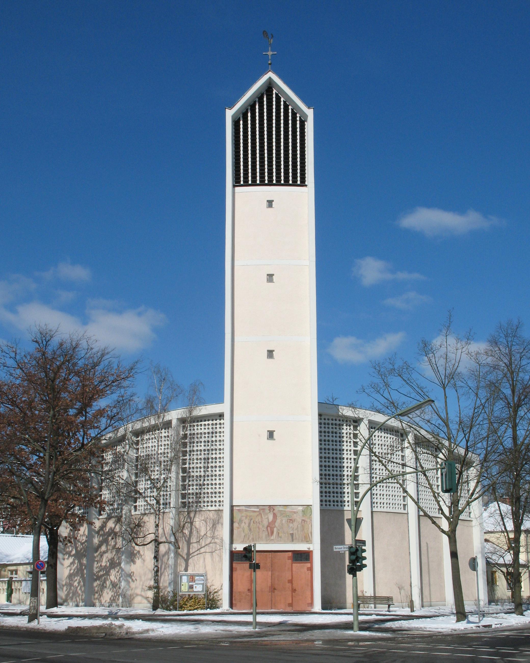 Church St Bernard in Berlin-Tegel, Germany